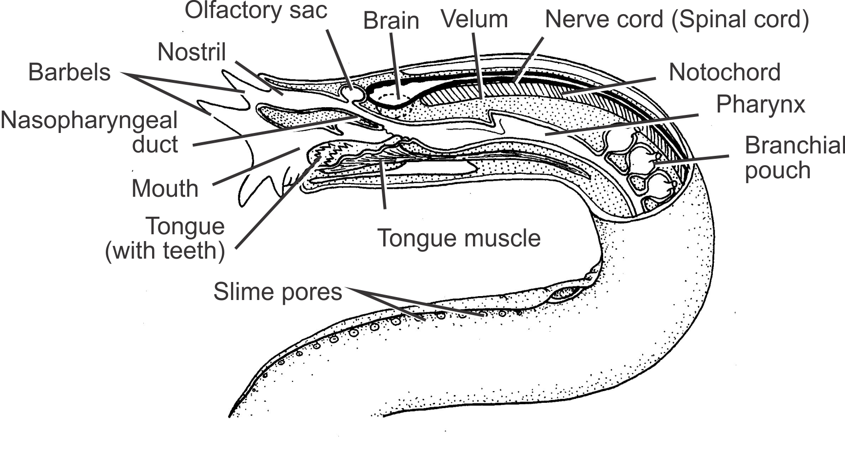 Anatomical features of a hagfish